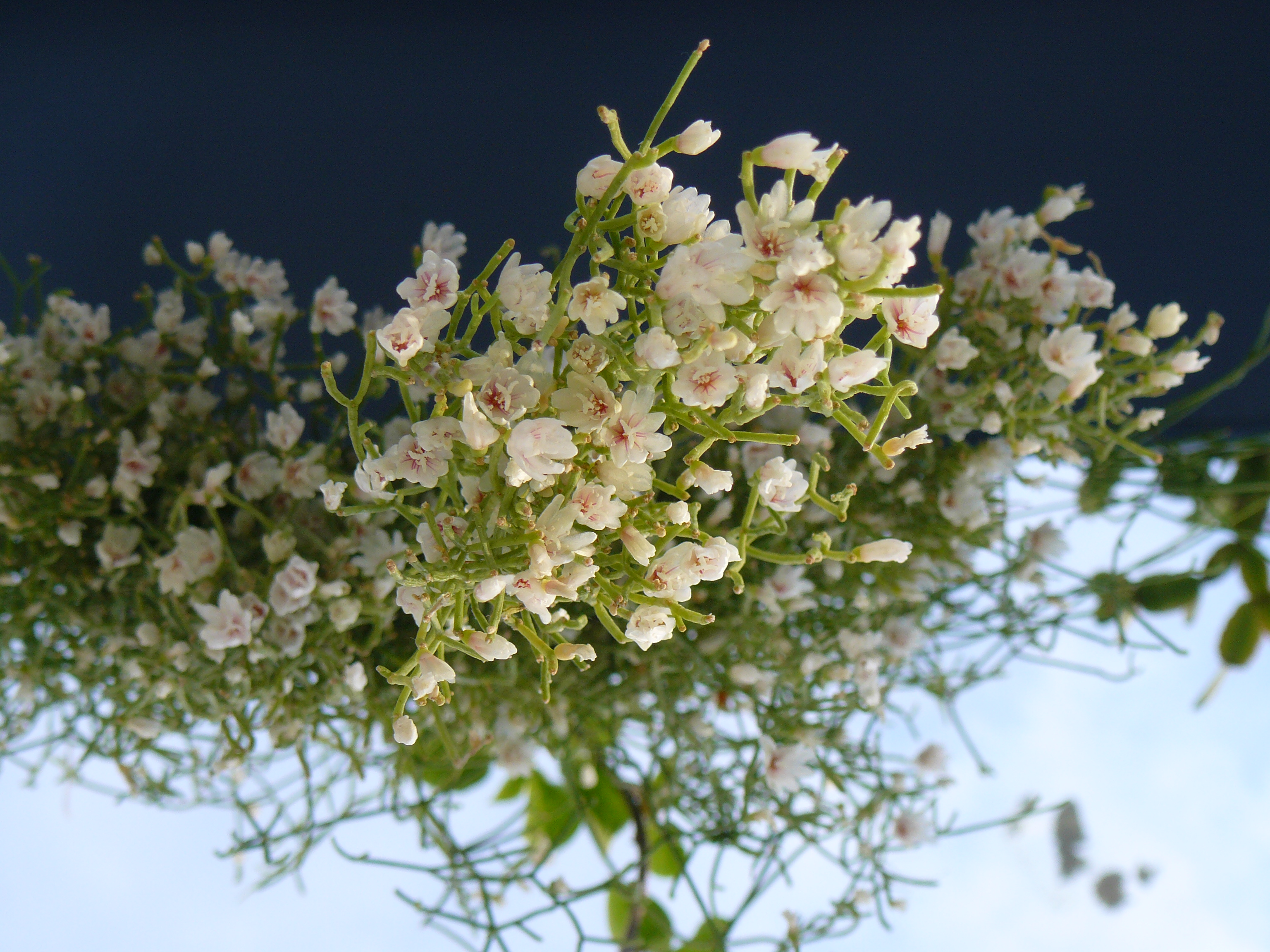 Rhipsalis cereuscula, a kind of coral cactus hanging plant, taken from below.